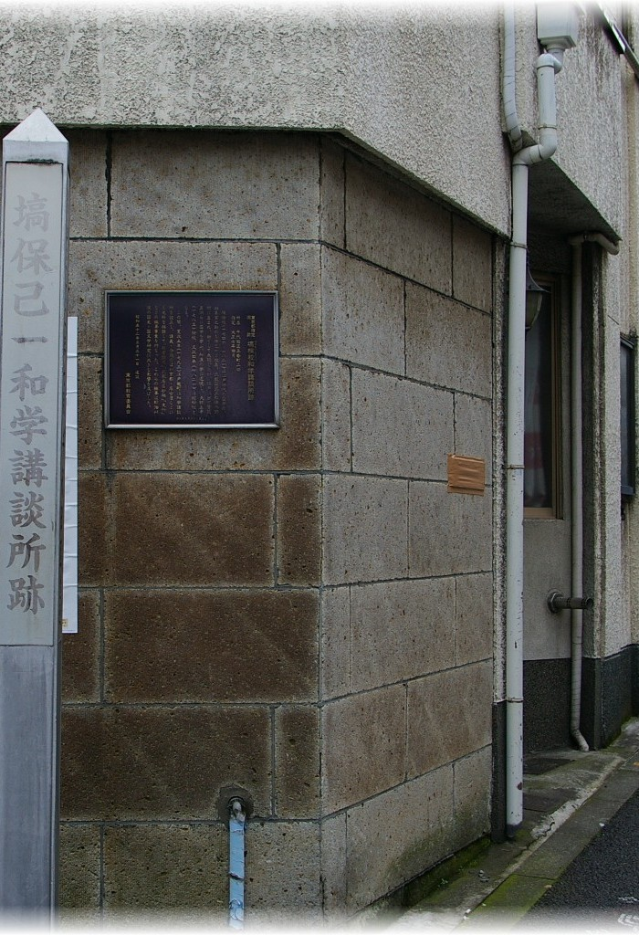 Site of Haniwa Hokinoichi Wagaku kōdansho (Sanbanchō).